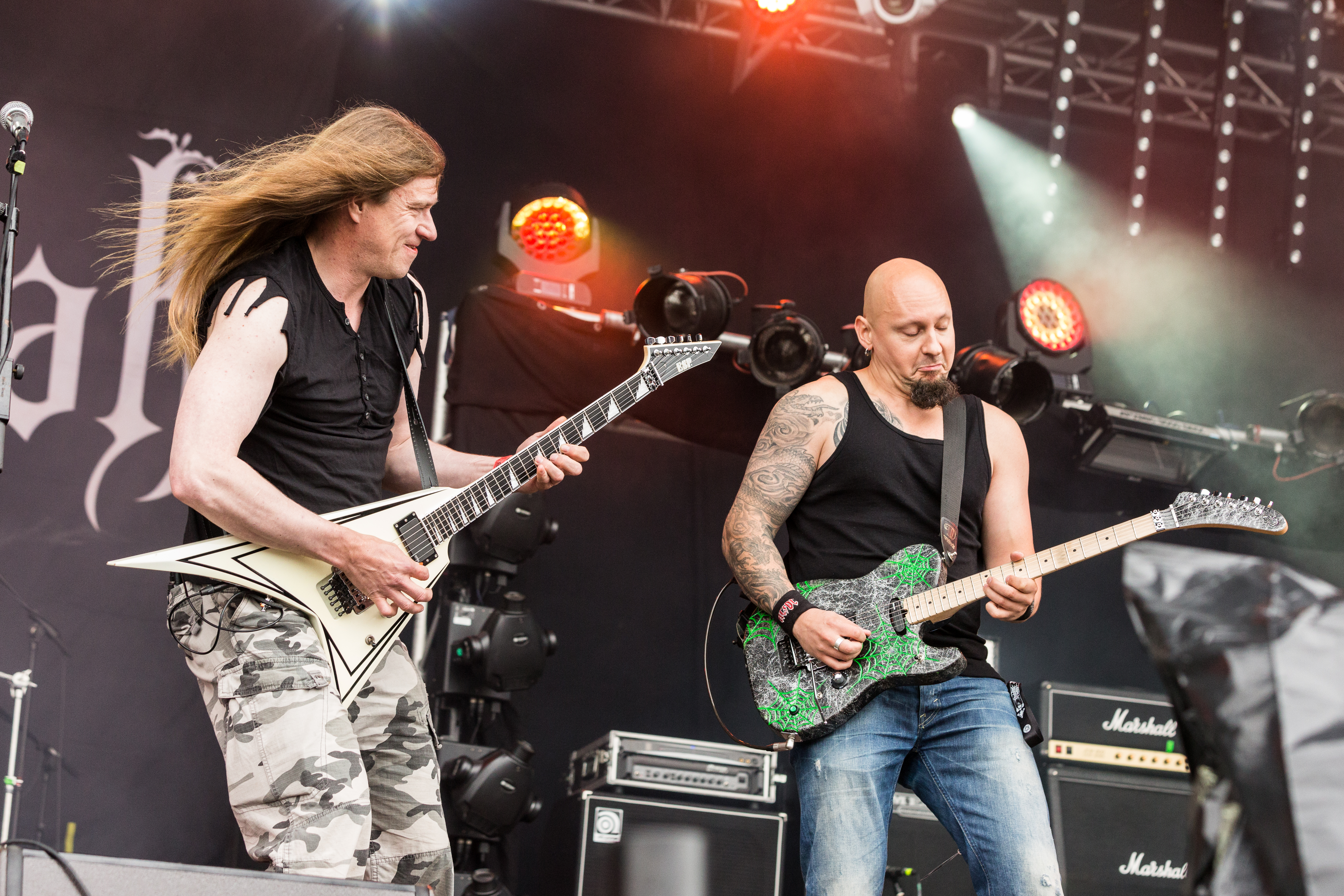 The Finnish melodic death metal band Kalmah at the Party.San Metal Open Air 2017 in Obermehler-Schlotheim/Germany.